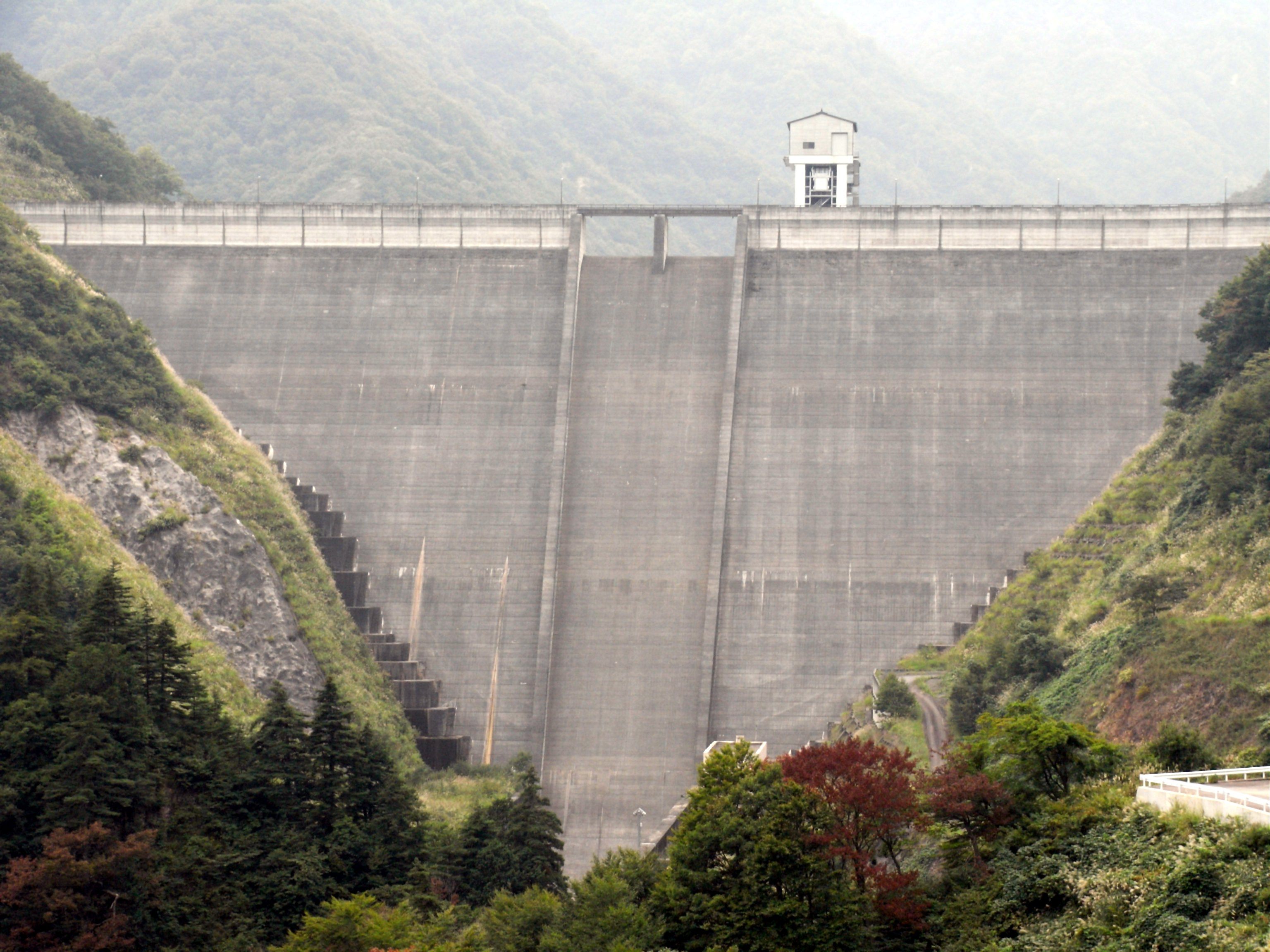 Sakaigawa Dam(Sakaigawa river/Toyama Pref&Gifu Pref./Japan)